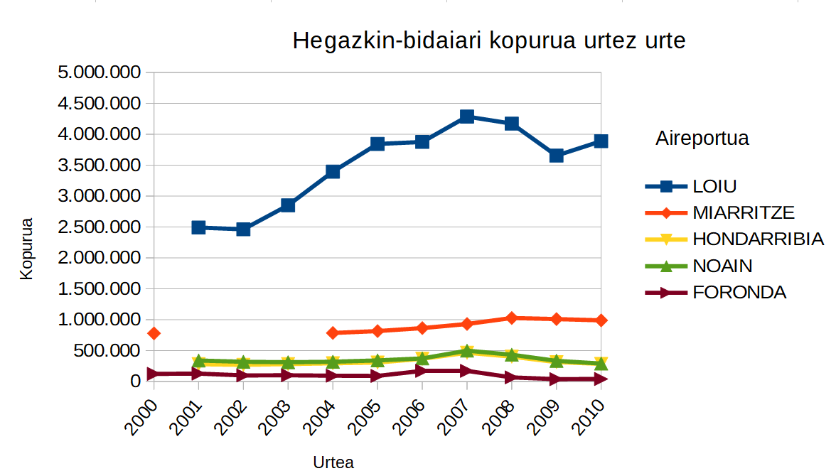 Plot showing voyager nubers per year in basque contry's airports